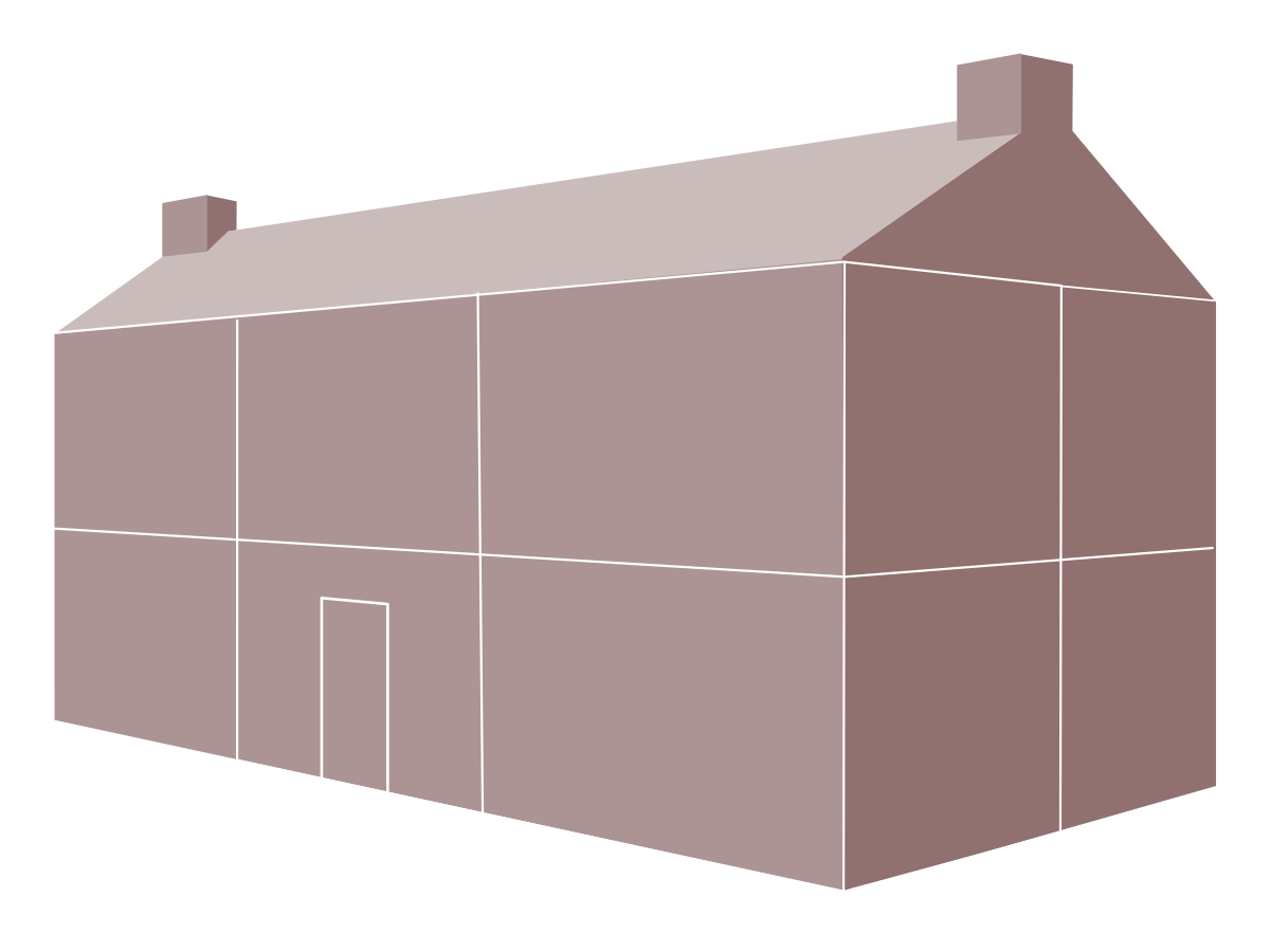 massed plan (2 rooms deep), common in the US after ca. 1760